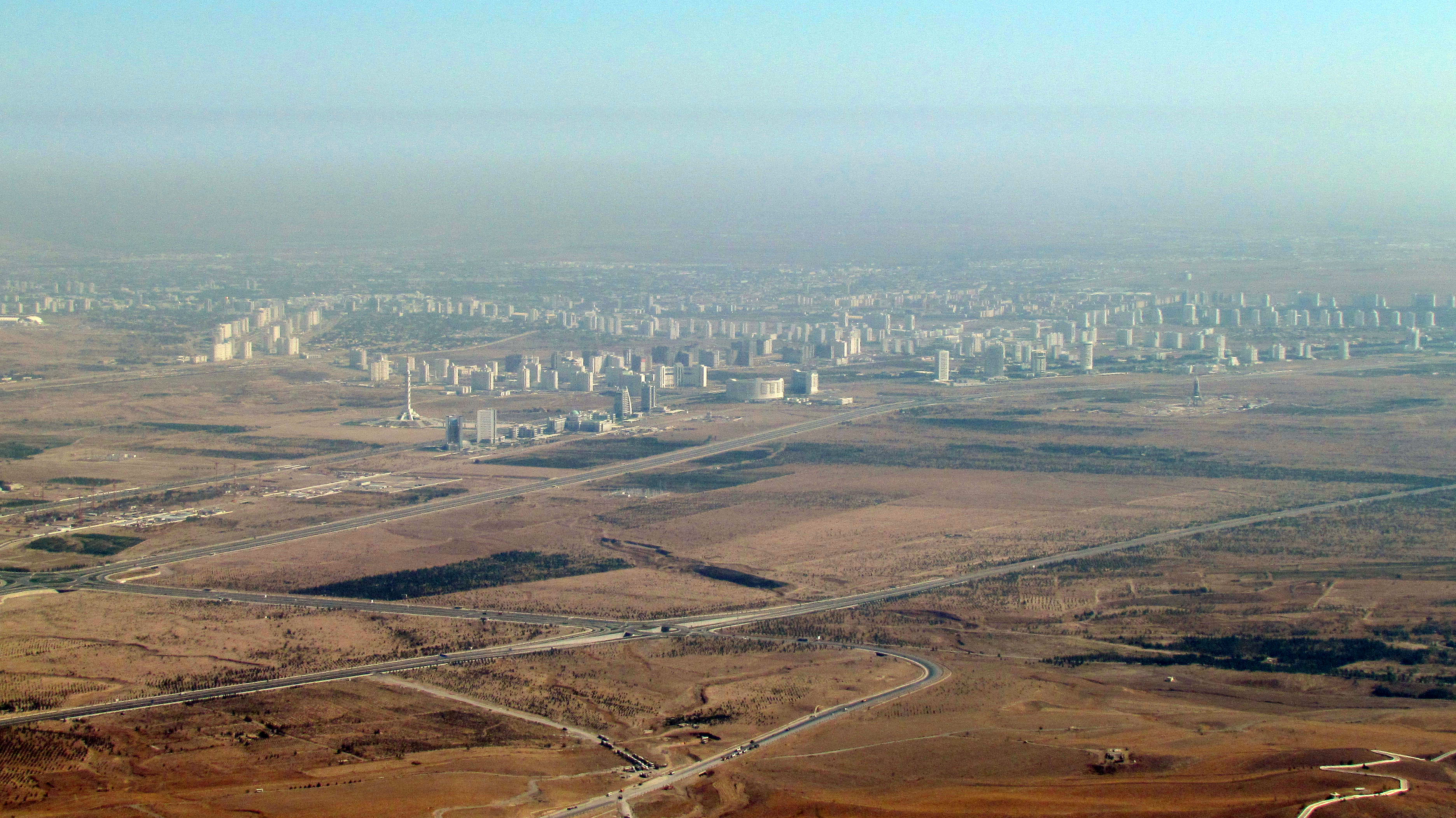 Panoramic view from the main viewing platform of an Ashkhabad television tower. Ashgabat, Turkmenistan. 2011 year photo